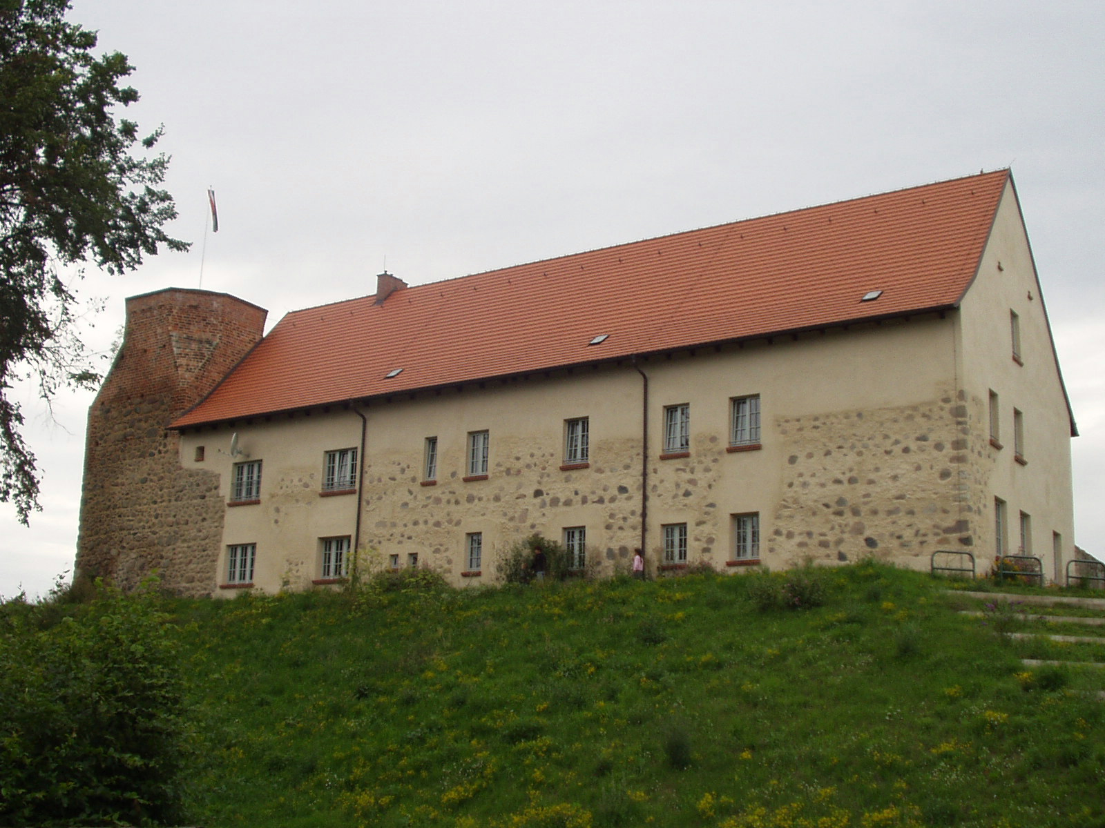 Fortret in harbour of Wesenberg, Germany